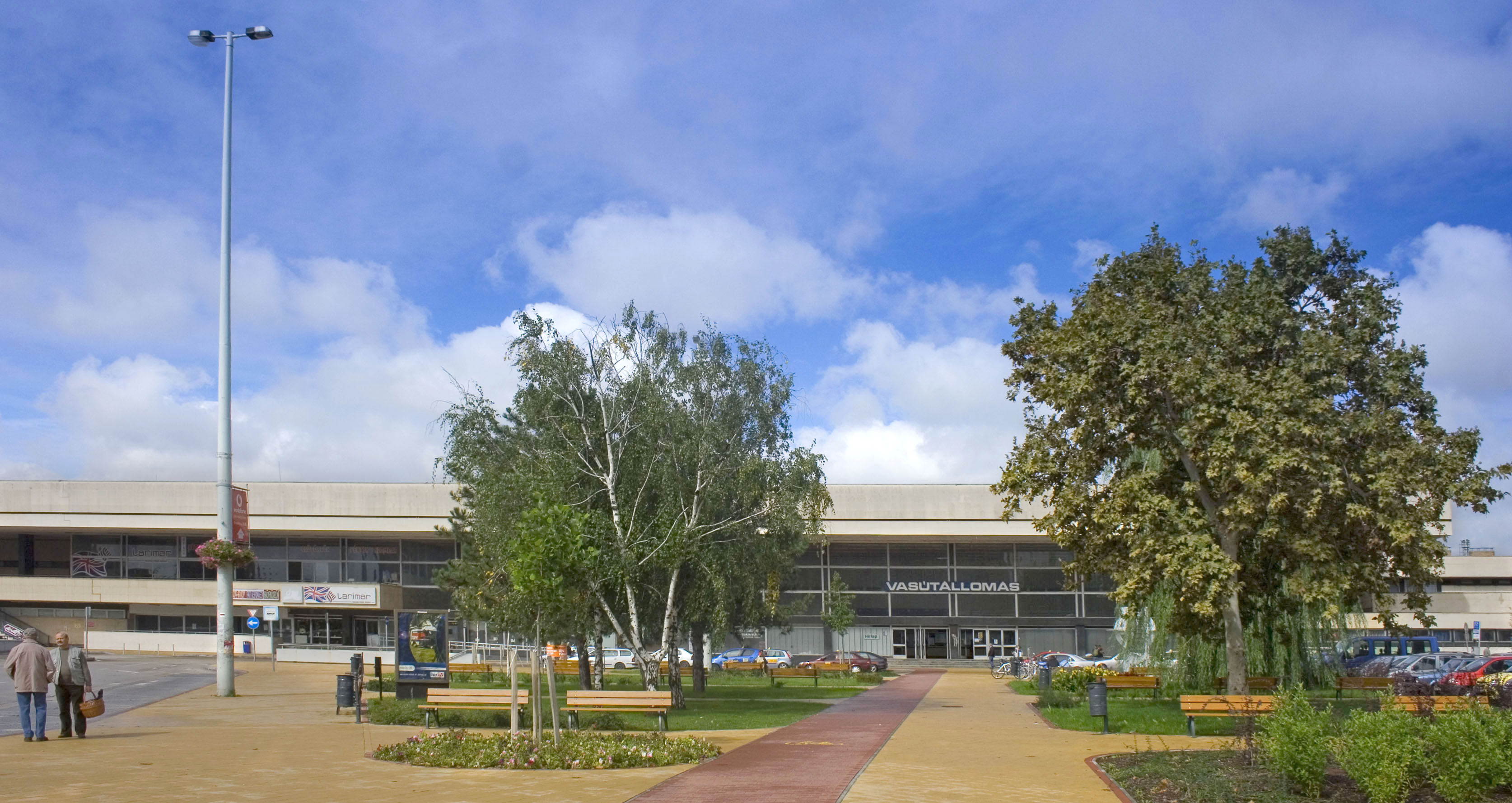 Hungary Szolnok railway station and Jubilee Square